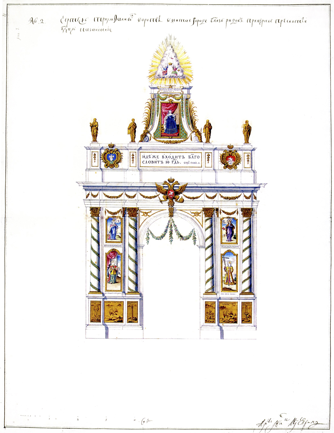 Ivan Michurin - View a triumphal gates of Kazan Church in Moscow. 1742